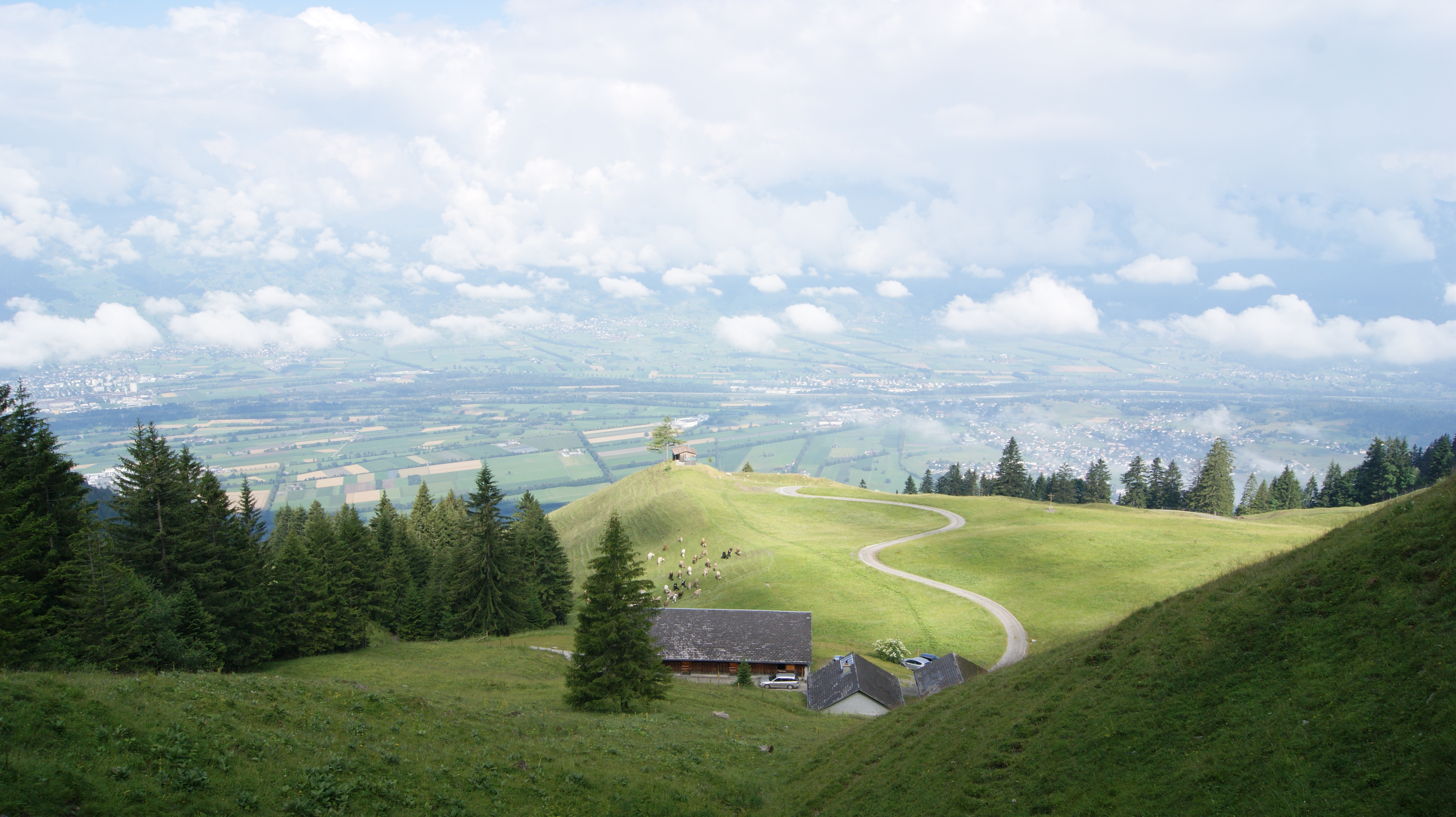 Gafaduraalpe, Planken, Principality of Liechtenstein.